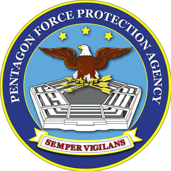 Seal of the Pentagon Force Protection Agency. Made with Photoshop.